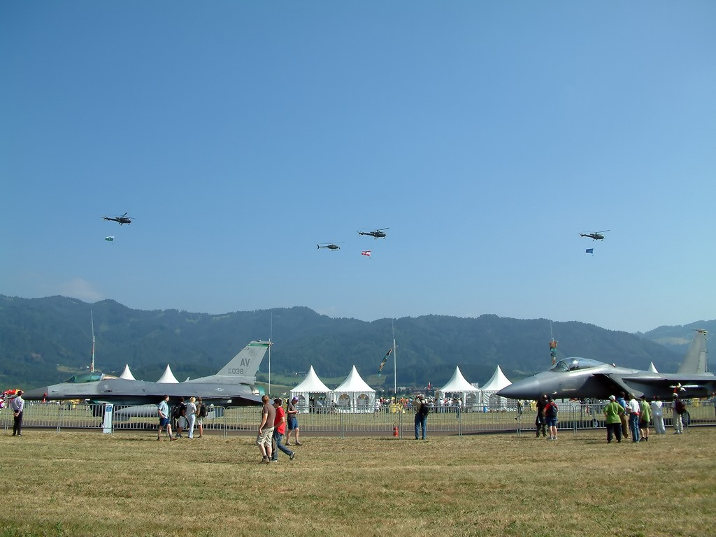 Helicopter Parade Austria Zeltweg Airshow Airpower 2005 Bundesheer